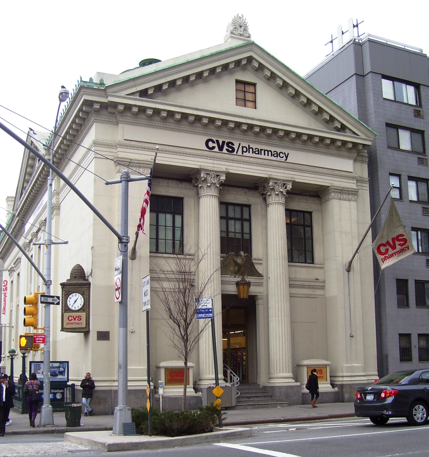 New York Savings Bank Building at 81 Eighth Avenue at West 14th Street in Manhattan, New York City